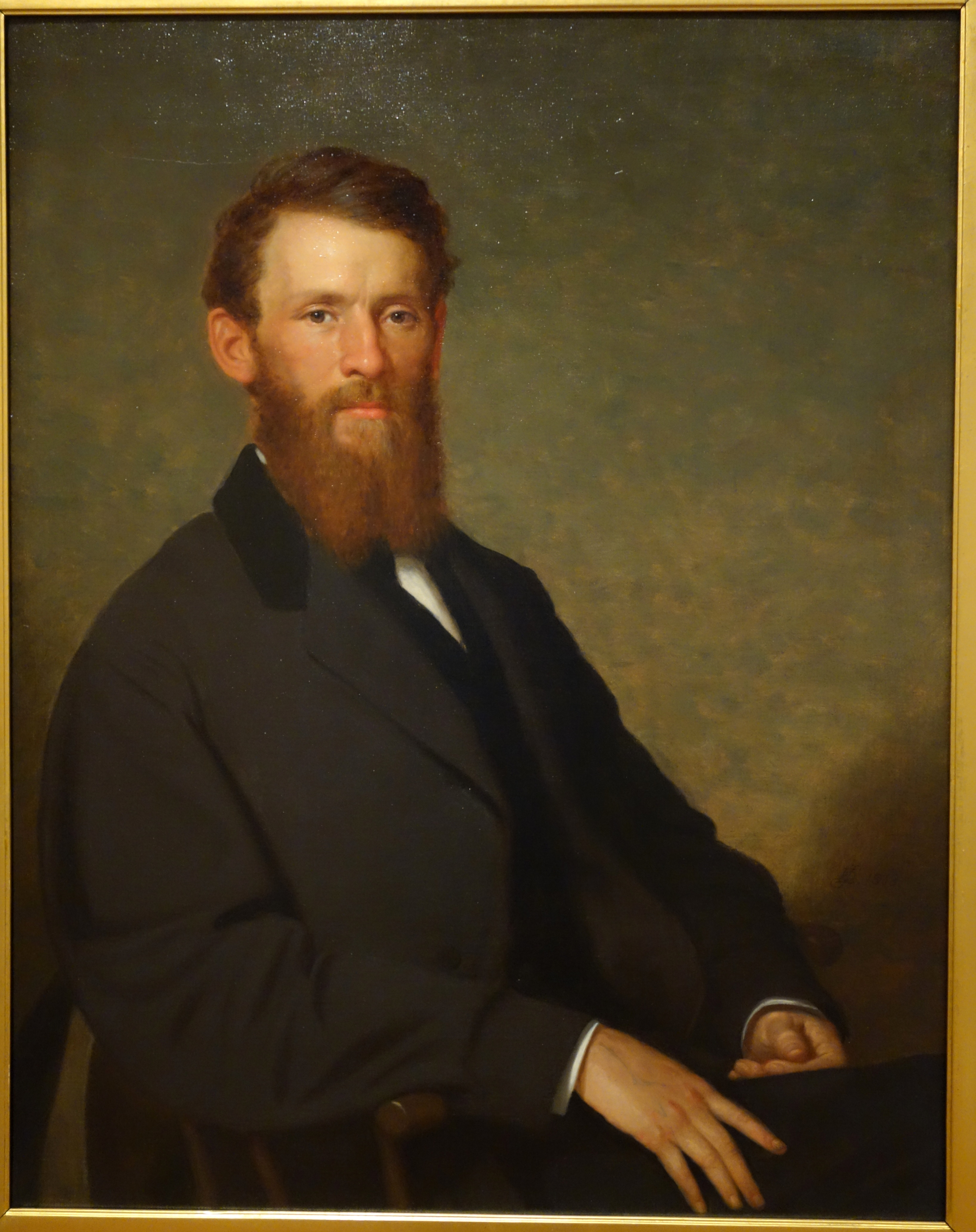 Exhibit in the Huntington Museum of Art, Huntington, West Virginia, USA. This artwork is in the public domain because the artist died more than 70 years ago.